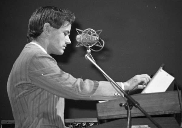 Ralf Hütter in concert in Zürich in 1976.